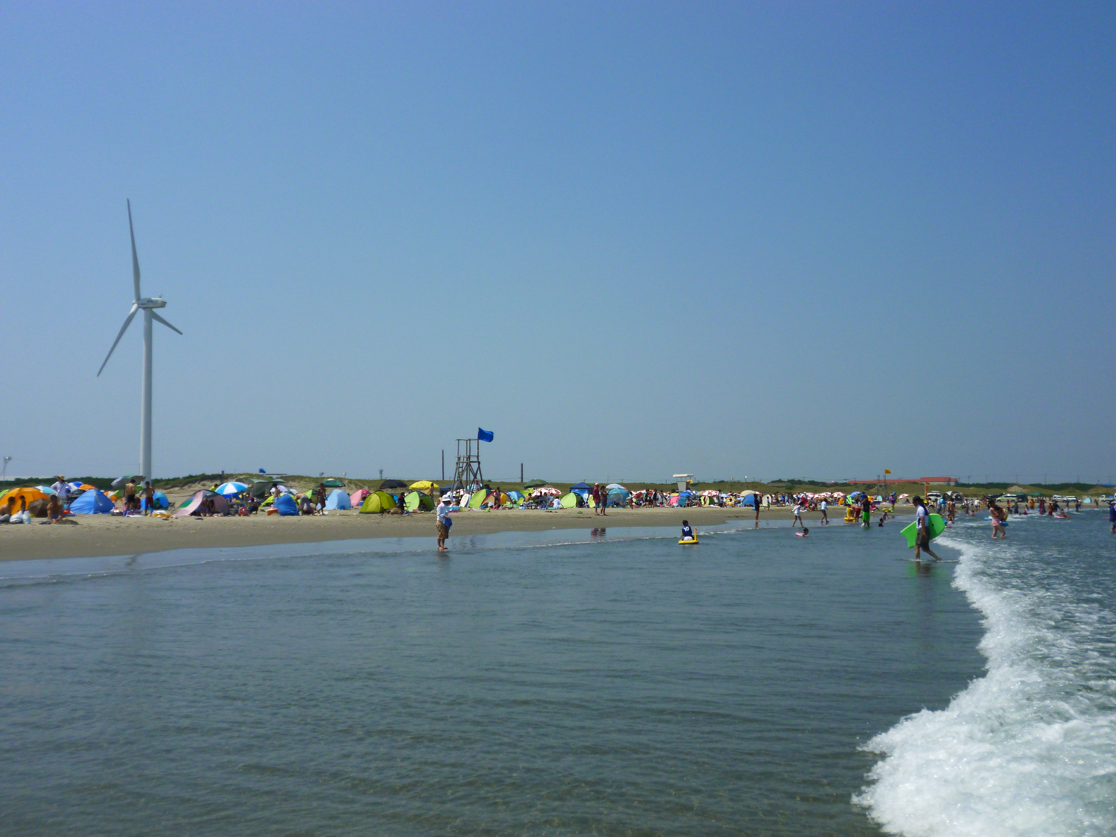 Hasaki Beach in Kamisu, Ibaraki, Japan.